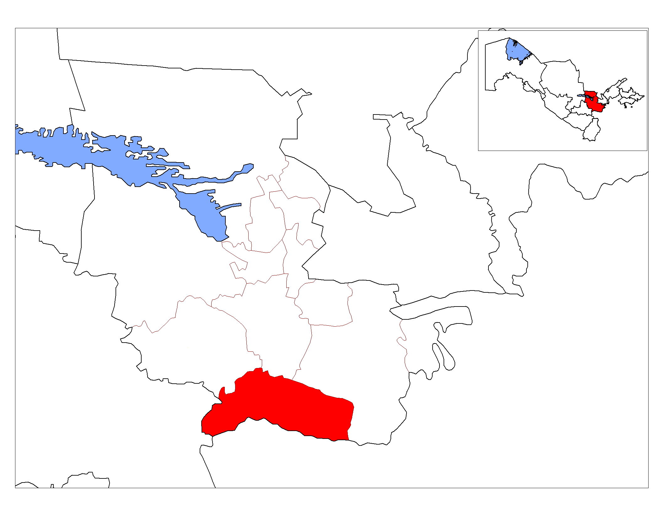 Location map of Baxmal District in Jizzax Province, Uzbekistan